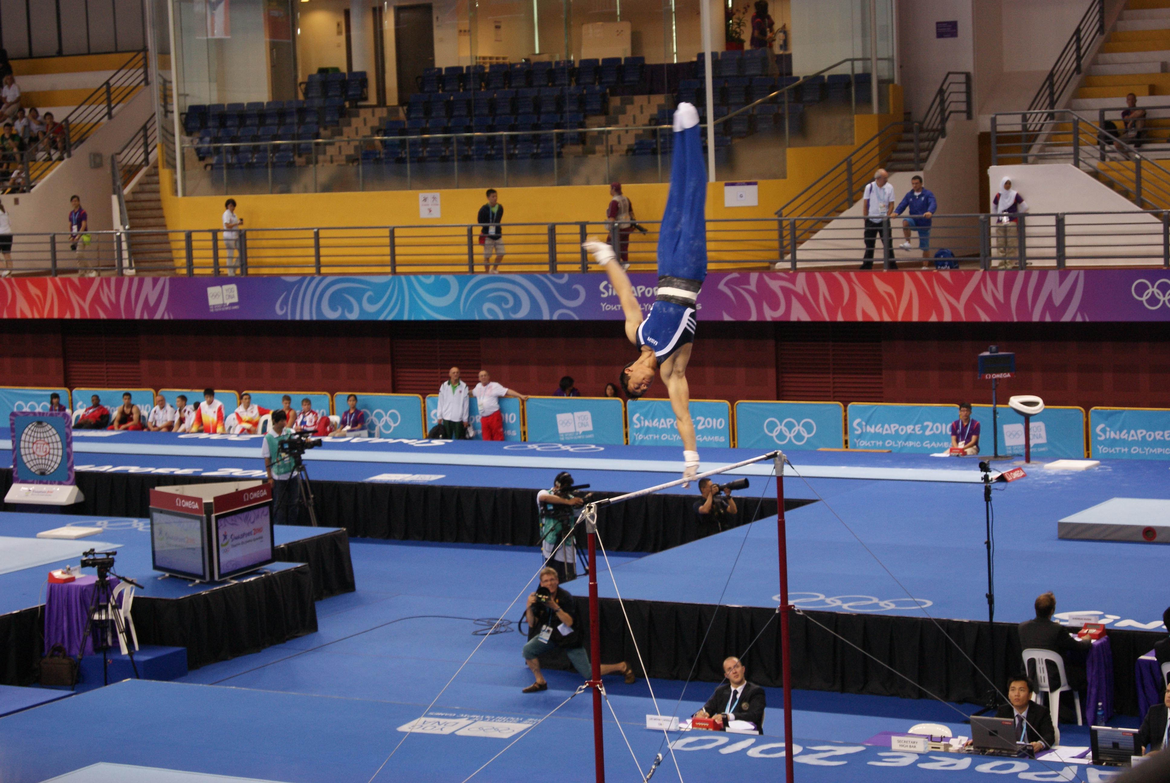 American gymnast Jesse Glenn performing on the horizontal bar during Men's Qualification – Subdivision 1 of the artistic gymnastics competition at the 2010 Summer Youth Olympics at Bishan Sports Hall, Singapore.